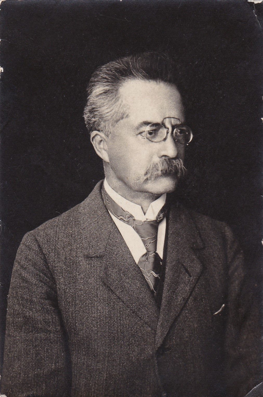 Constant Vansteenkiste